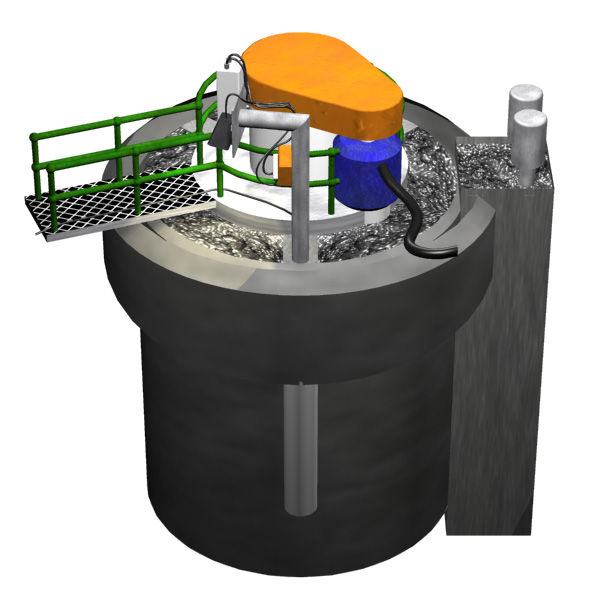 A 3D render of a froth flotation cell